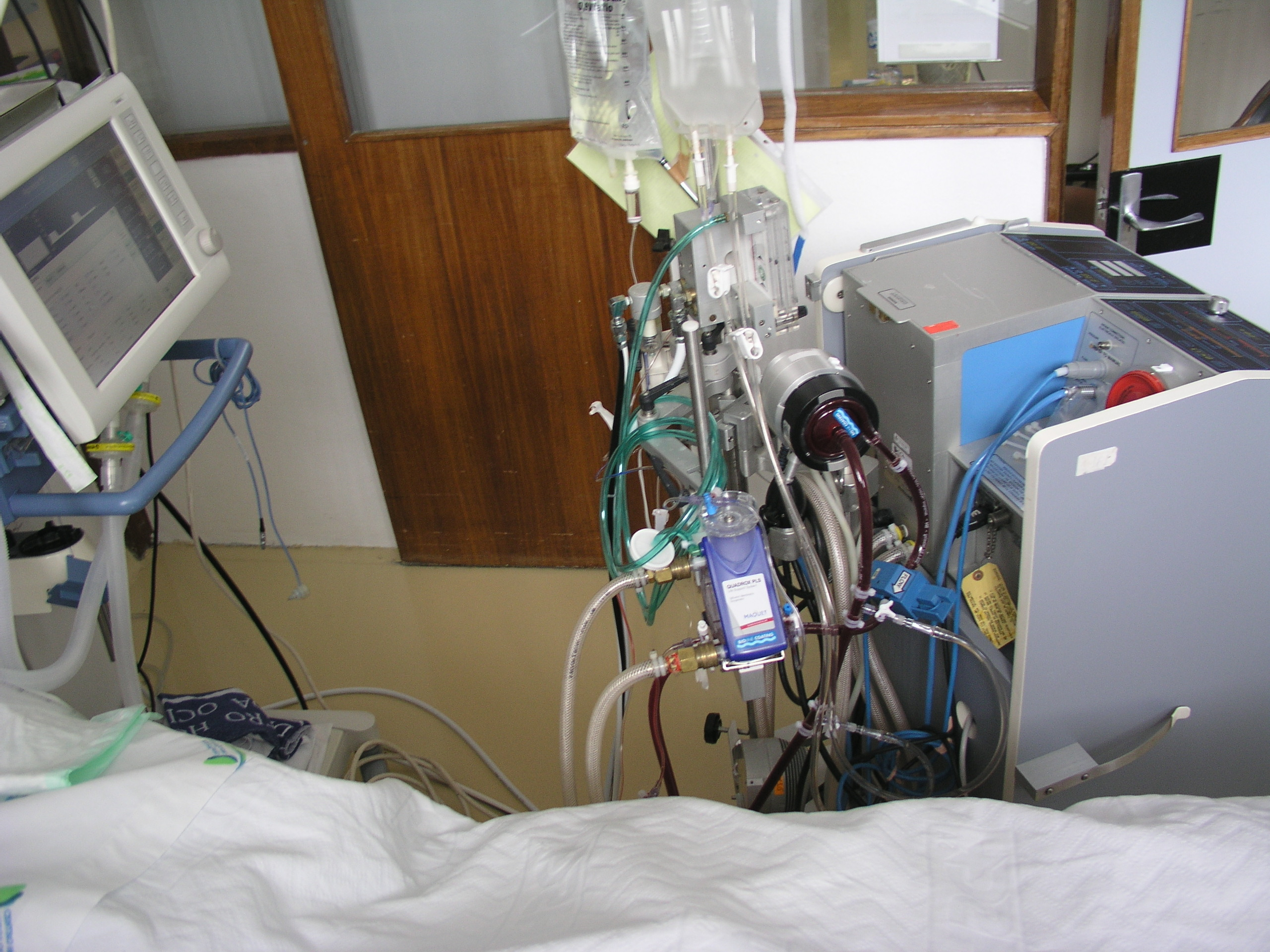 Extracorporeal membrane oxygenation (ECMO) machine in a ICU patient in Santa Cruz Hospital, Lisbon, Portugal